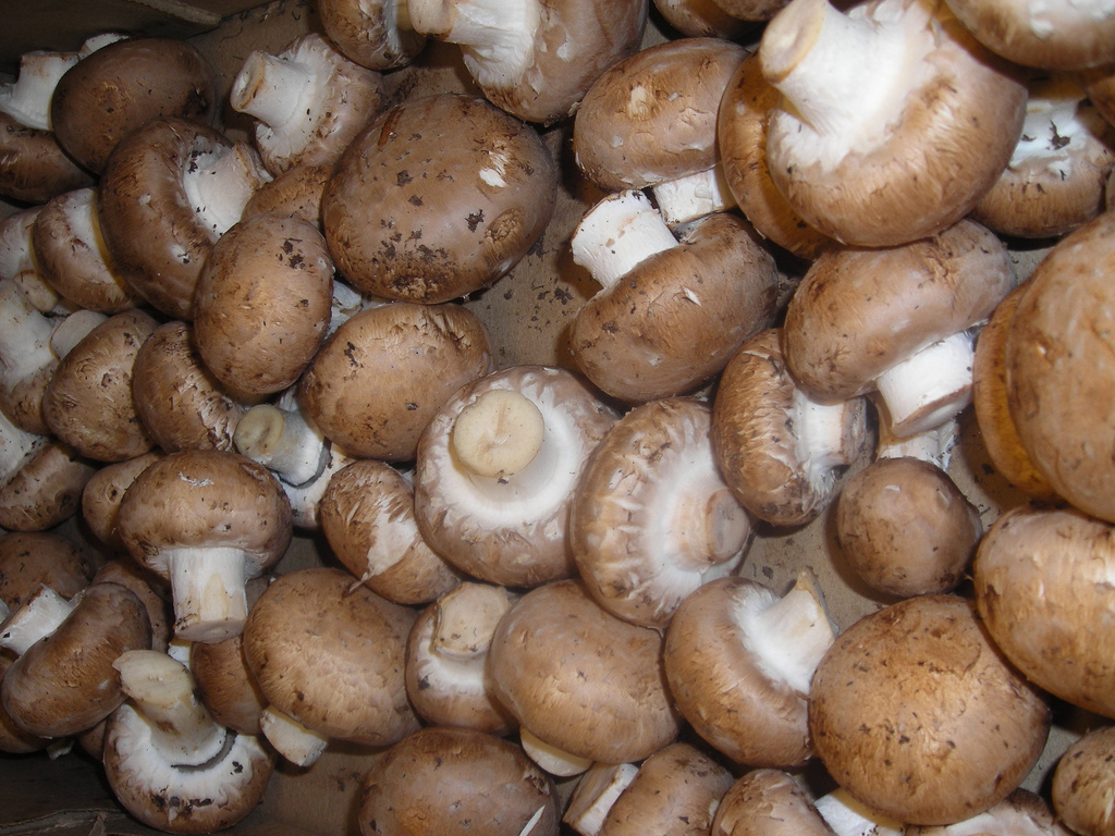 Seasonal produce as seen in the Park Slope Food Co-Op mid-October 2010.